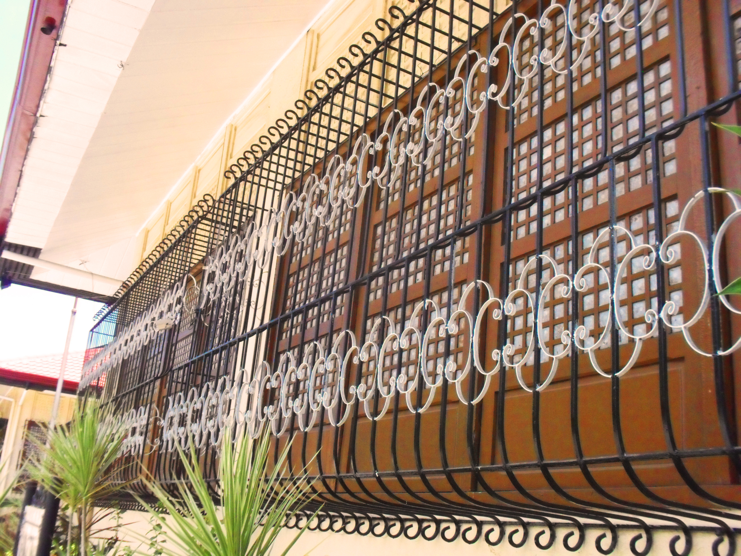 Capiz windows with grill works at front facade